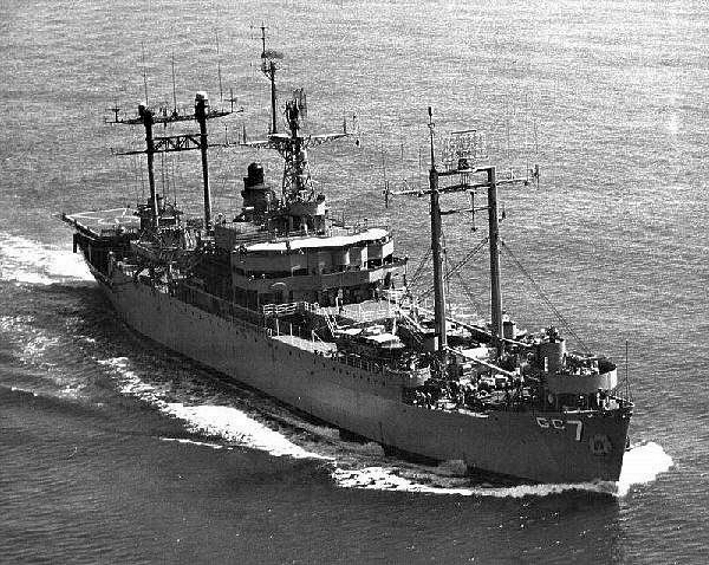 The U.S. Navy amphibious command ship USS Mount McKinley (AGC-7) underway in the early 1960s. She is equipped with AN/SPS-8A and AN/SPS-37 air-search radars.